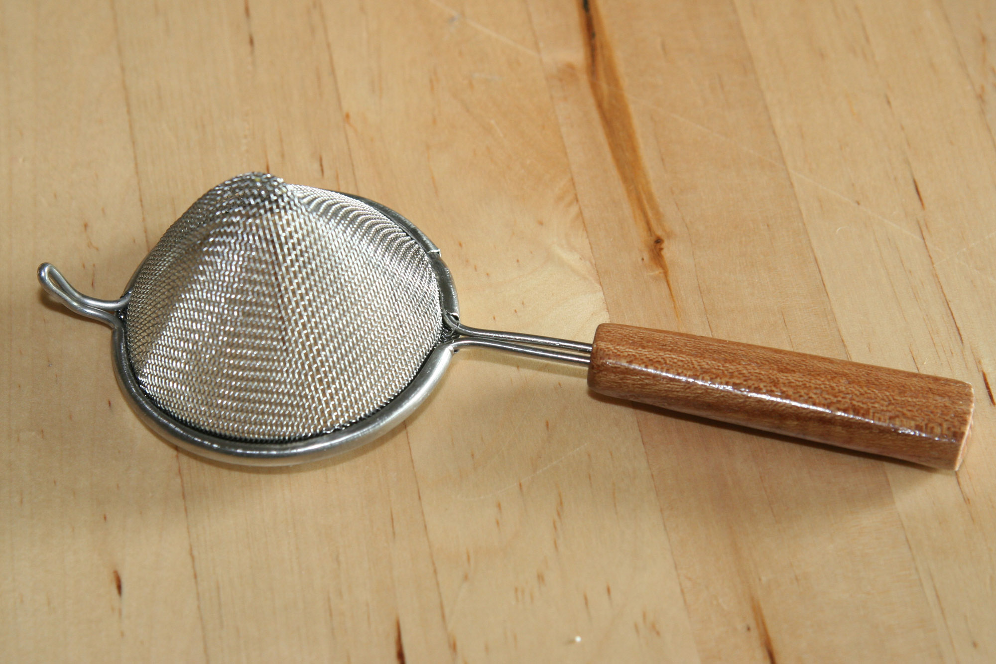 Strainer with net